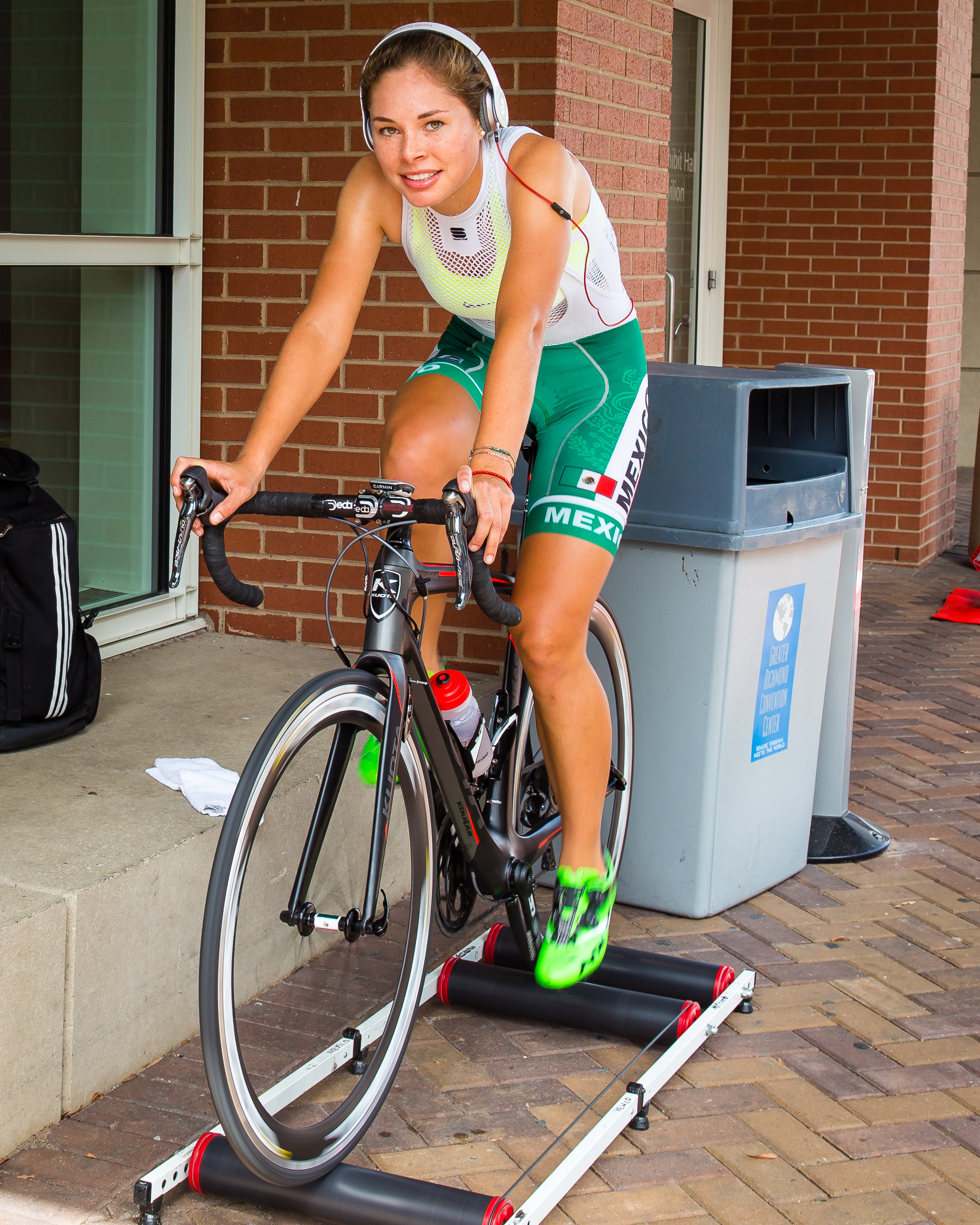 Warming Up #UCI2015 UCI Road World Championships 2015, Richmond, VA - Íngrid Drexel Clouthier 2015 UCI Road World Championships, in Richmond, United States